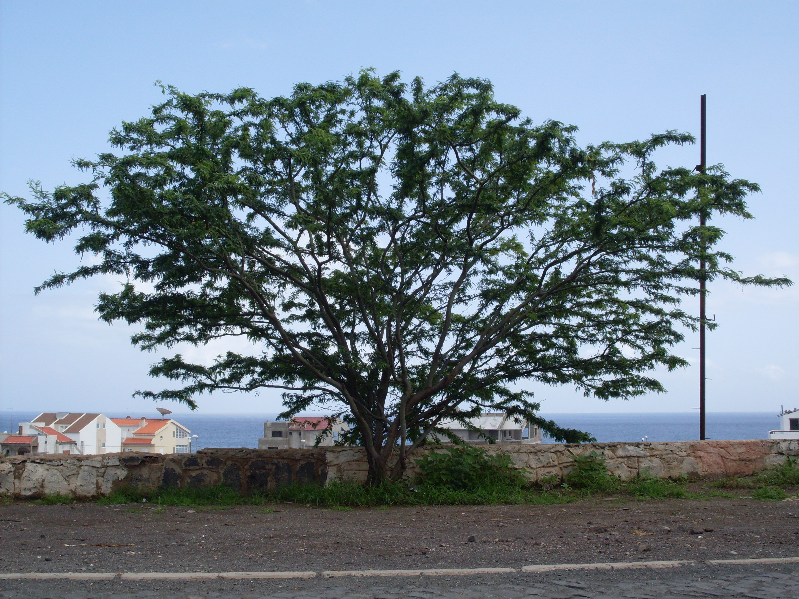 Acacia tree in Praia, Cape Verde